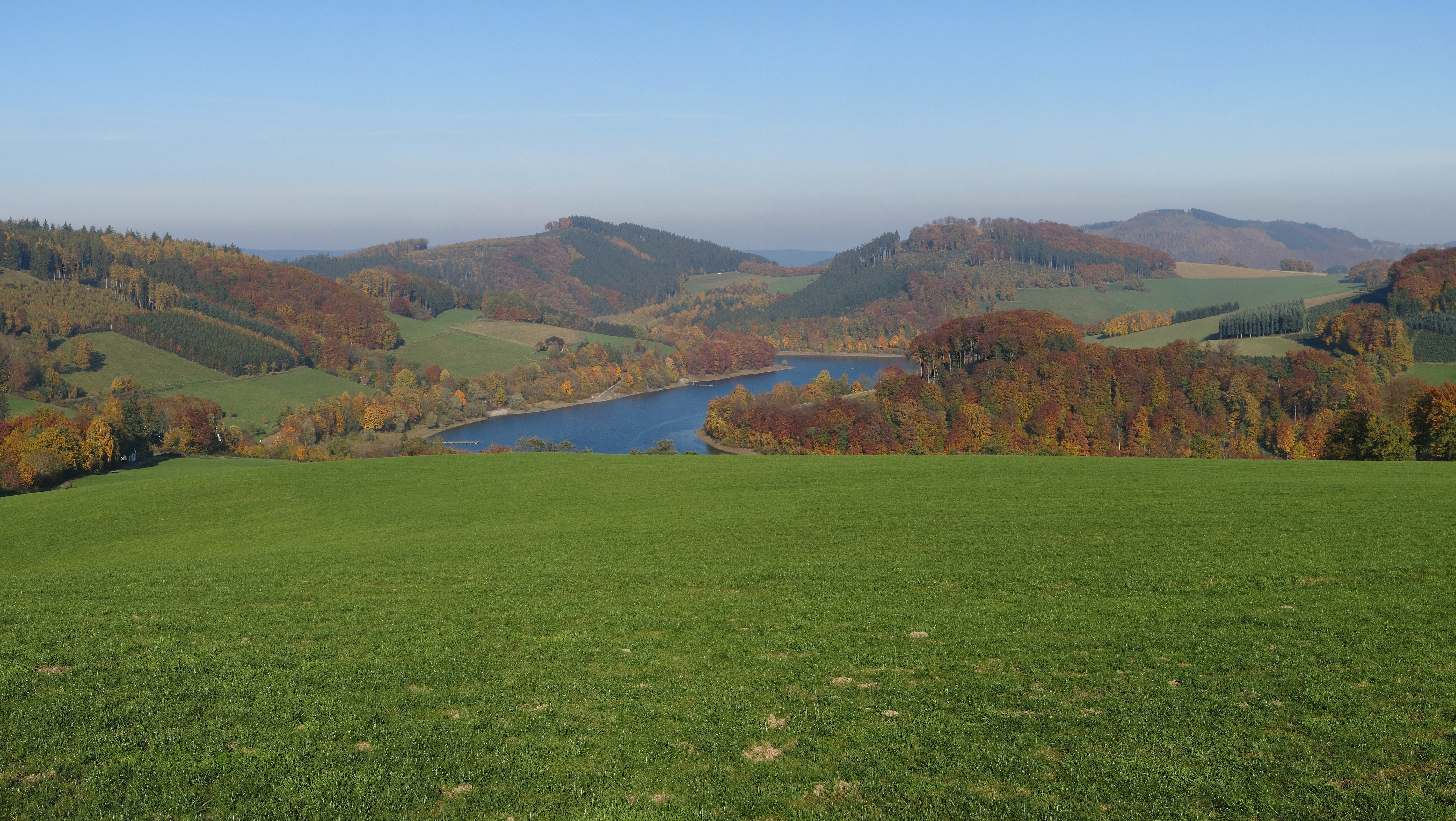 Autumn in the Sauerland near the Hennesee